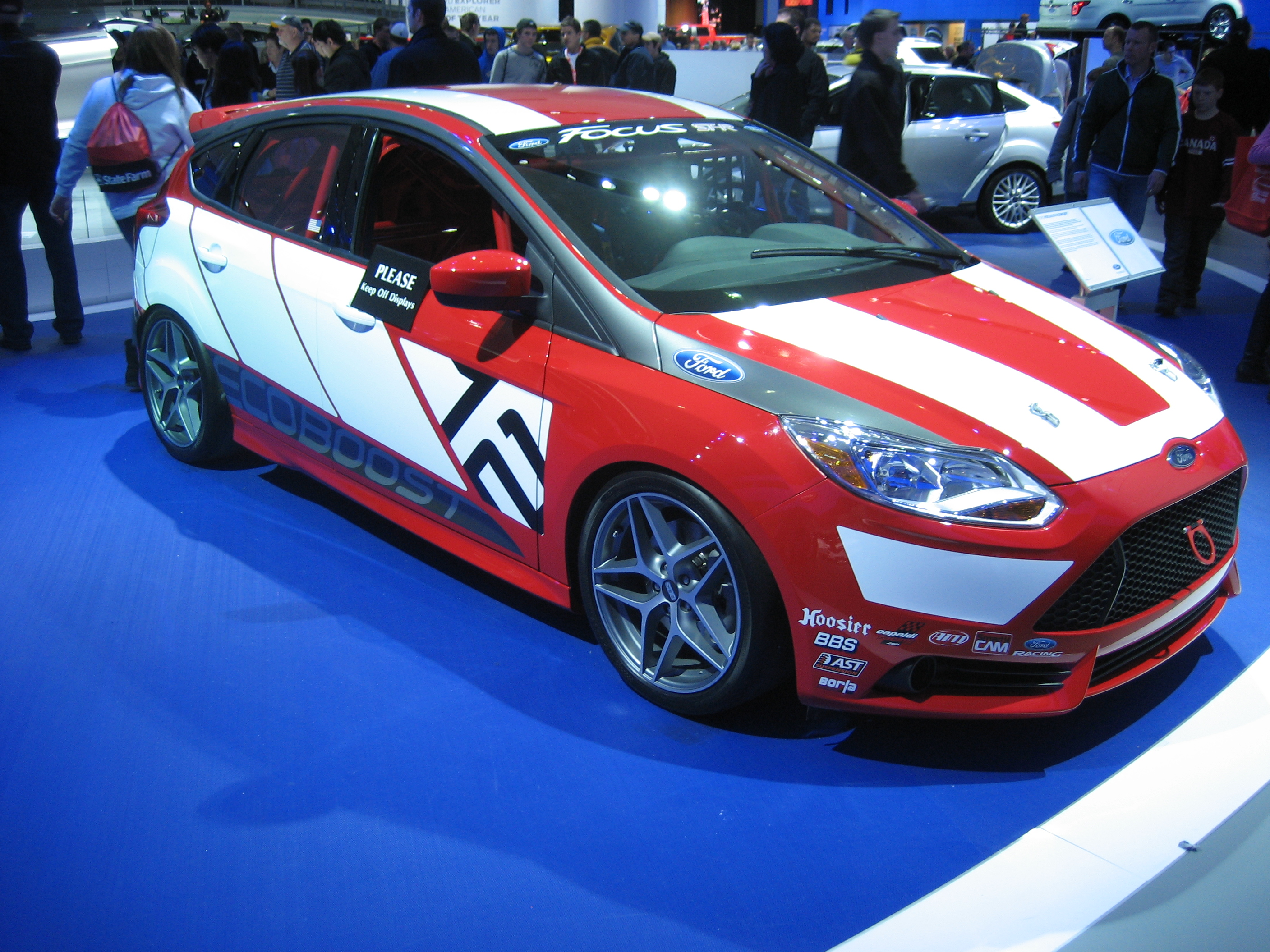 Ford Ecoboost race car.